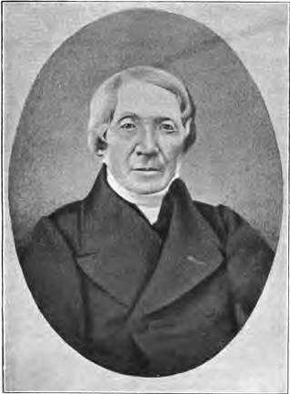 Portrait of Philippe André de Vilmorin (1776-1862), originally published in Gustave Heusé, Les Vilmorin (1746-1899): Philippe Victoire Levêque de Vilmorin (1746-1804); Pierre Philippe André Levêque de Vilmorin (1776-1862); Pierre Louis François Levêque de Vilmorin (1816-1860); Charles Philippe Henry Levêque de Vilmorin (1843-1899), Paris : Librairie agricole de la Maison rustique, 1899.